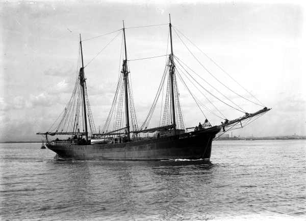 Black and white photograph of the Argosy Lemal, 3-masted schooner .